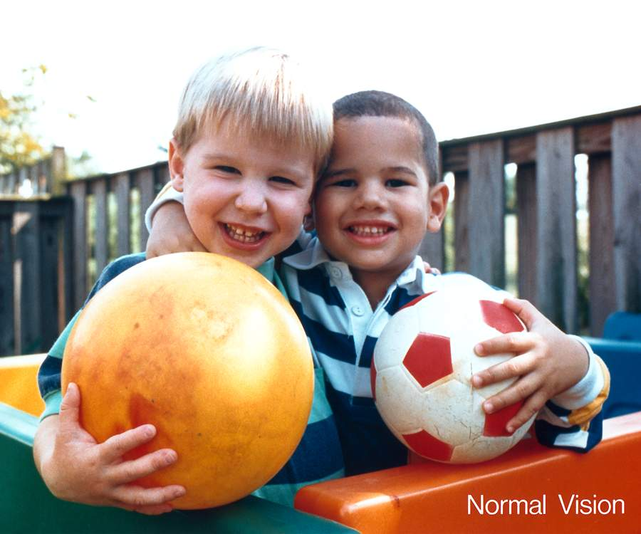 Description: Normal vision Credit: National Eye Institute, National Institutes of Health Ref#: EDS01